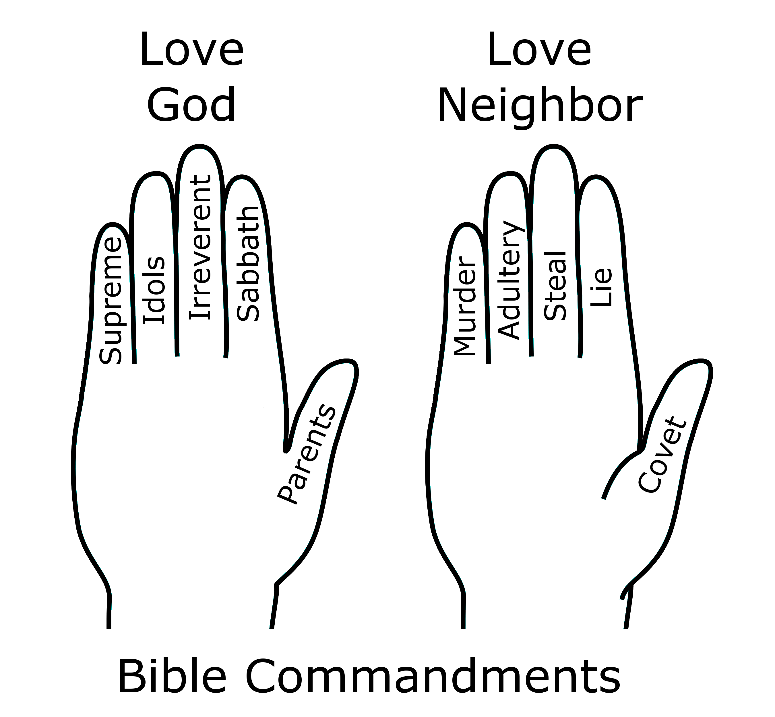 Commandments listed in the Bible are distilled down to a word or two each, and then associated with the fingers of the left and right hand as a mnemonic device. For the Ten Commandments, paraphrased and distilled, these are: Supreme: Do not have any gods before God. Idols: Do not worship any idols. Irreverence: Do not use the name of God in vain. Sabbath: Do honor the Sabbath day. Parents: Do honor your parents. Murder: Do not kill your neighbor. Adultery: Do not commit adultery with your neighbor. Steal: Do not steal from your neighbor. Lie: Do not lie to your neighbor. Covet: Do not covet what belongs to your neighbor. The first and the last have to do with one's thoughts. The others pertain to one's actions (which themselves start as thoughts). That is a teaching found in the Torah. In the New Testament, the teaching is condensed further as simply two pillars: Love God. Love your neighbor. These last two have been referred to as the Great Commandments.